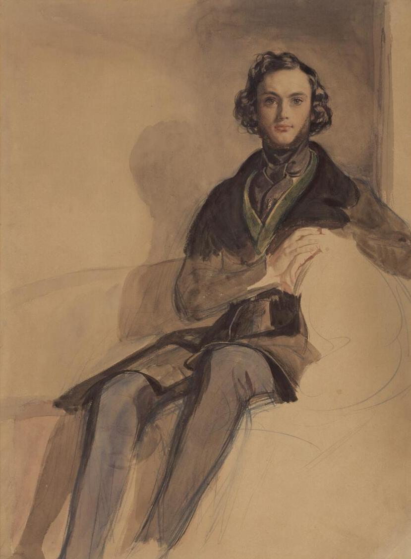 A portrait from the Welsh Portrait Collection at the National Library of Wales. Depicted person: Daniel Maclise – Irish history, literary and portrait painter, and illustrator